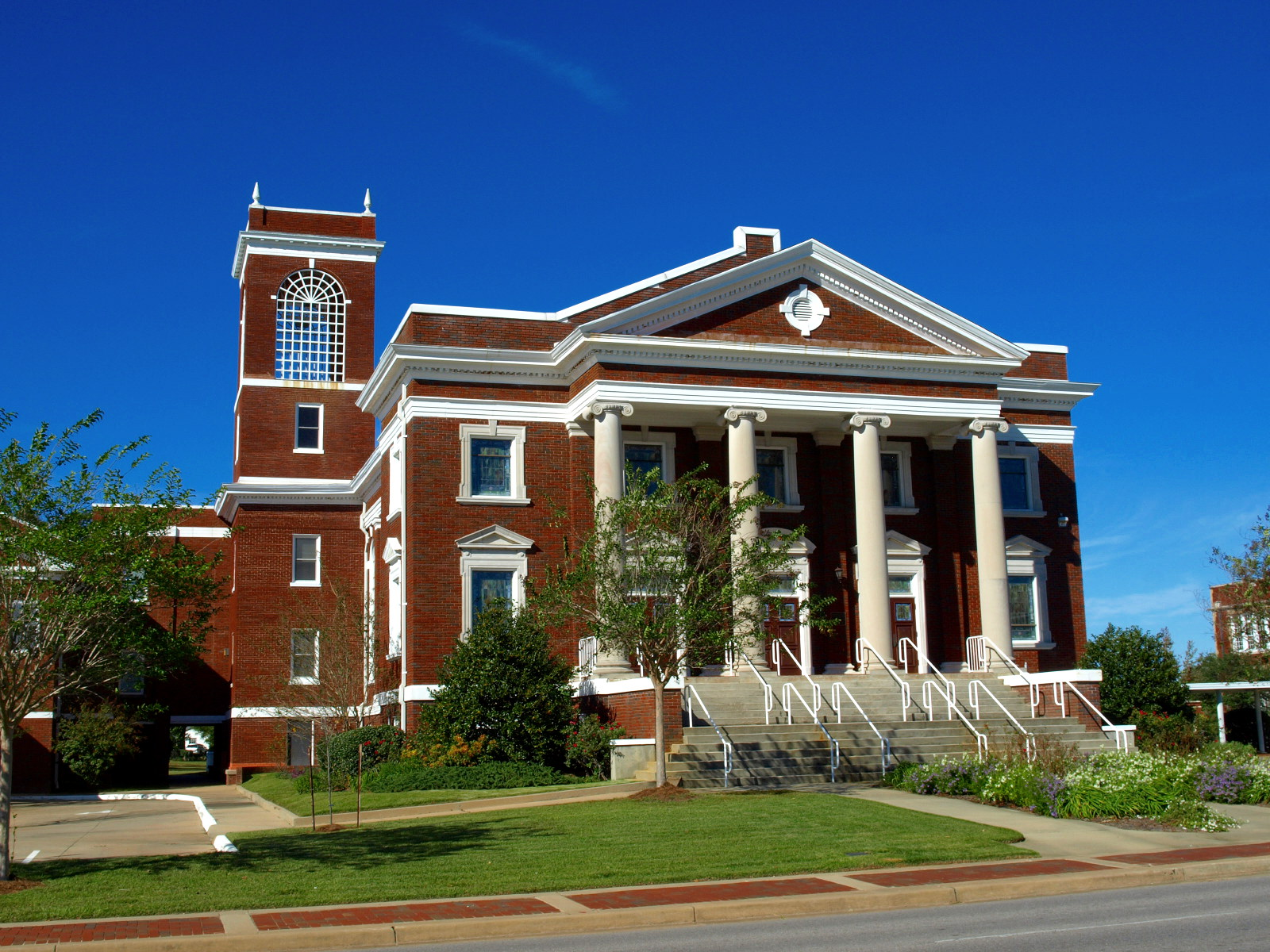 First United Methodist Church in the J.W. Shreve Addition Historic District in Andalusia, Alabama